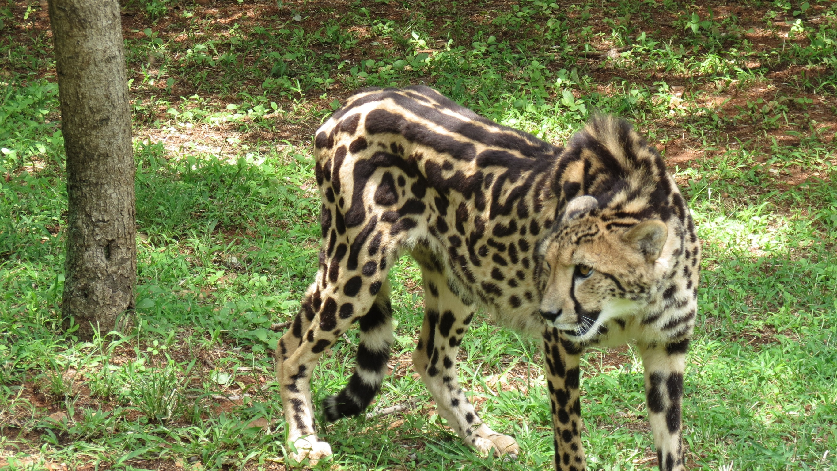 From the Ann van Dyk cheetah farm